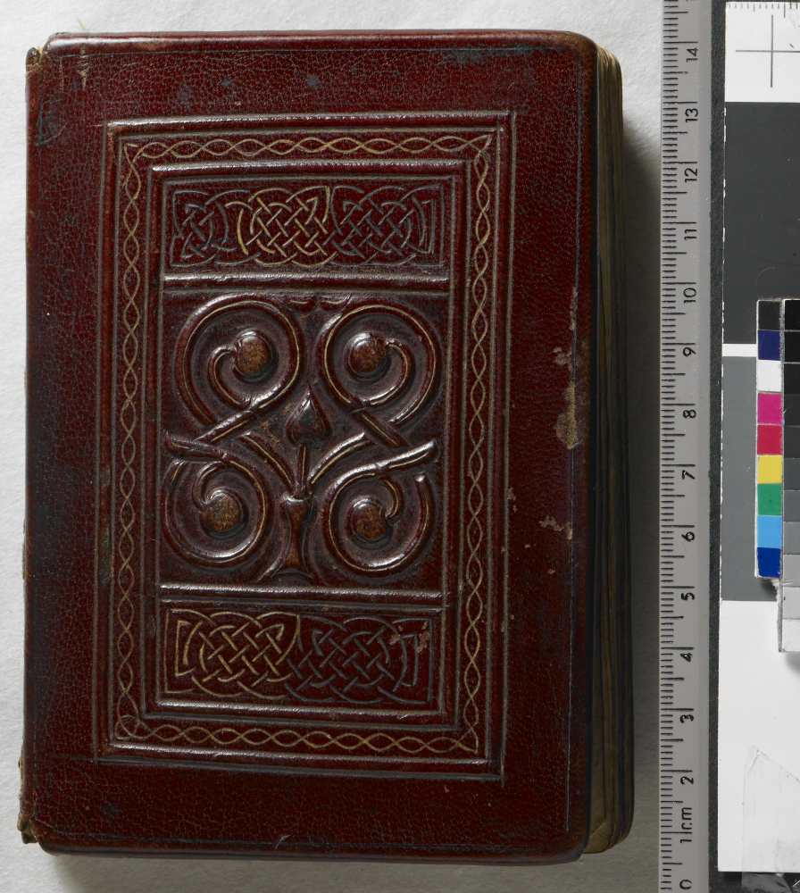 Style: Abstract|Circle|Leaf; Caption: Upper cover; Colour: Brown|Red; Edge: Plain